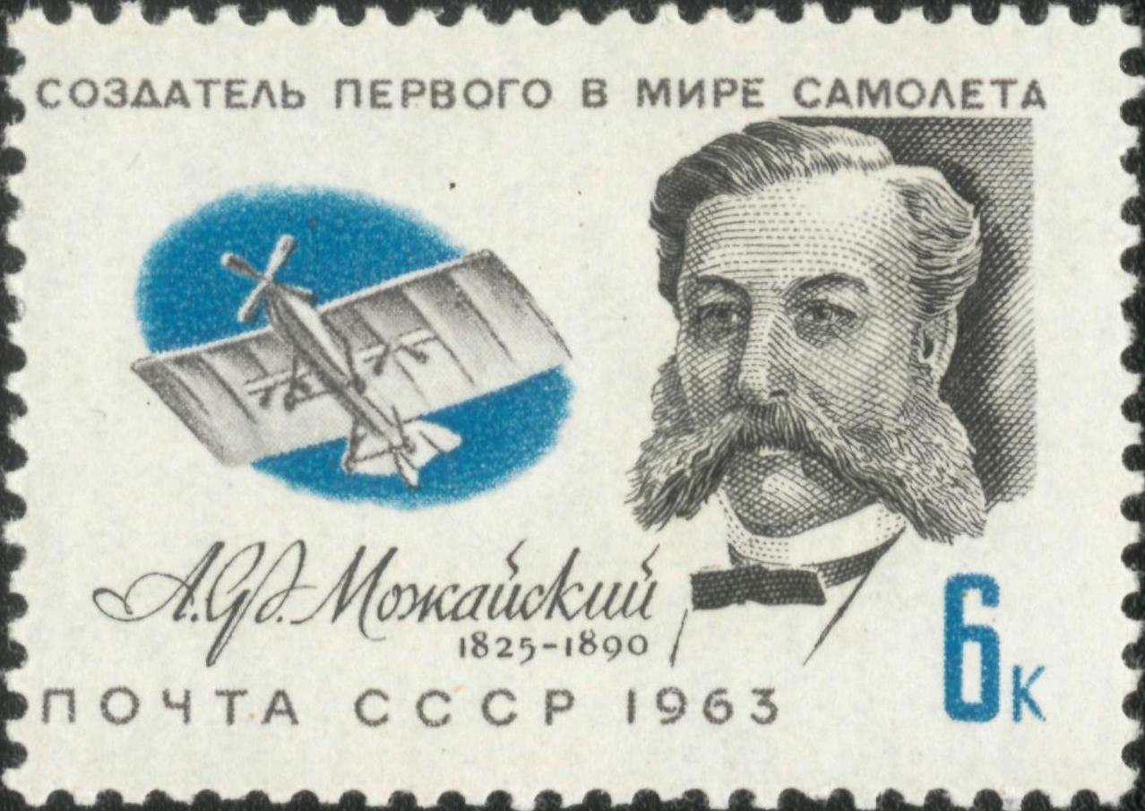 Soviet stamp of 6 kopecks (1963). Alexander Mozhaysky, aviation pioneer.